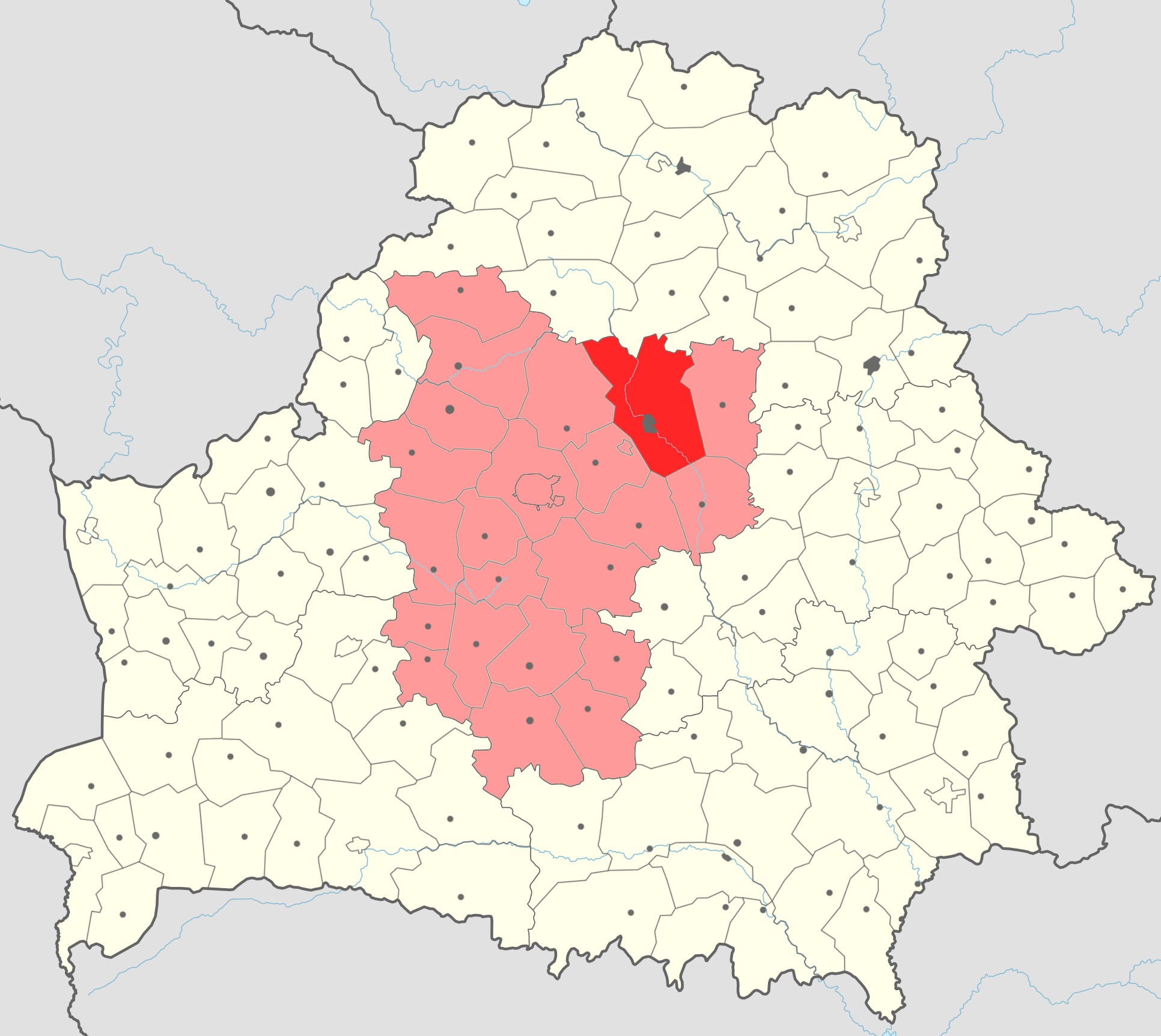 Map of Barysaŭ (Barysaw, Borisov) rayon (in red) with Minsk voblast' (in light red) on the map of Belarus.